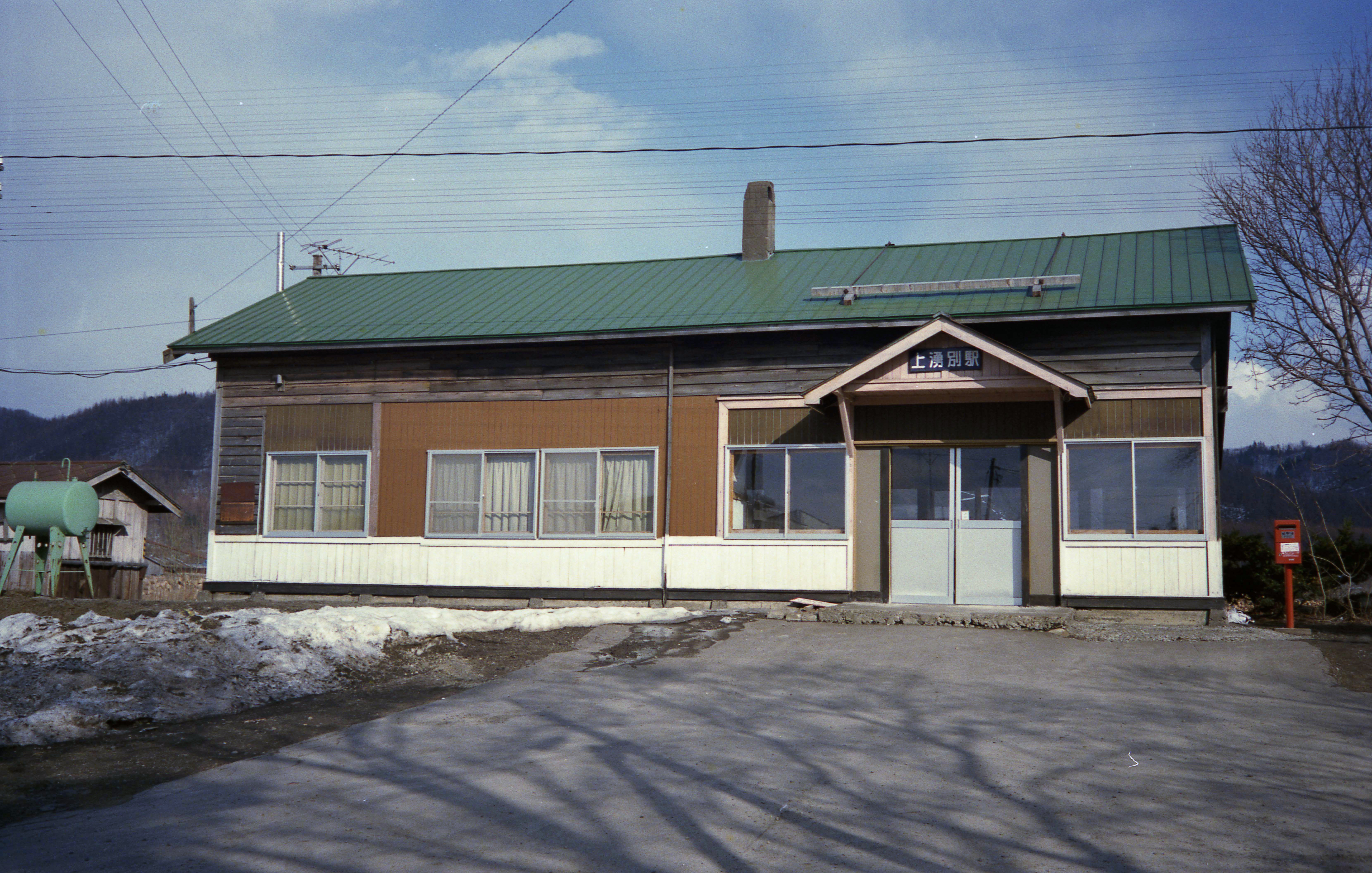 The building of Kamiyubetsu Station,Hokkaido Railway Company Nayoro Main Line(before abolished)